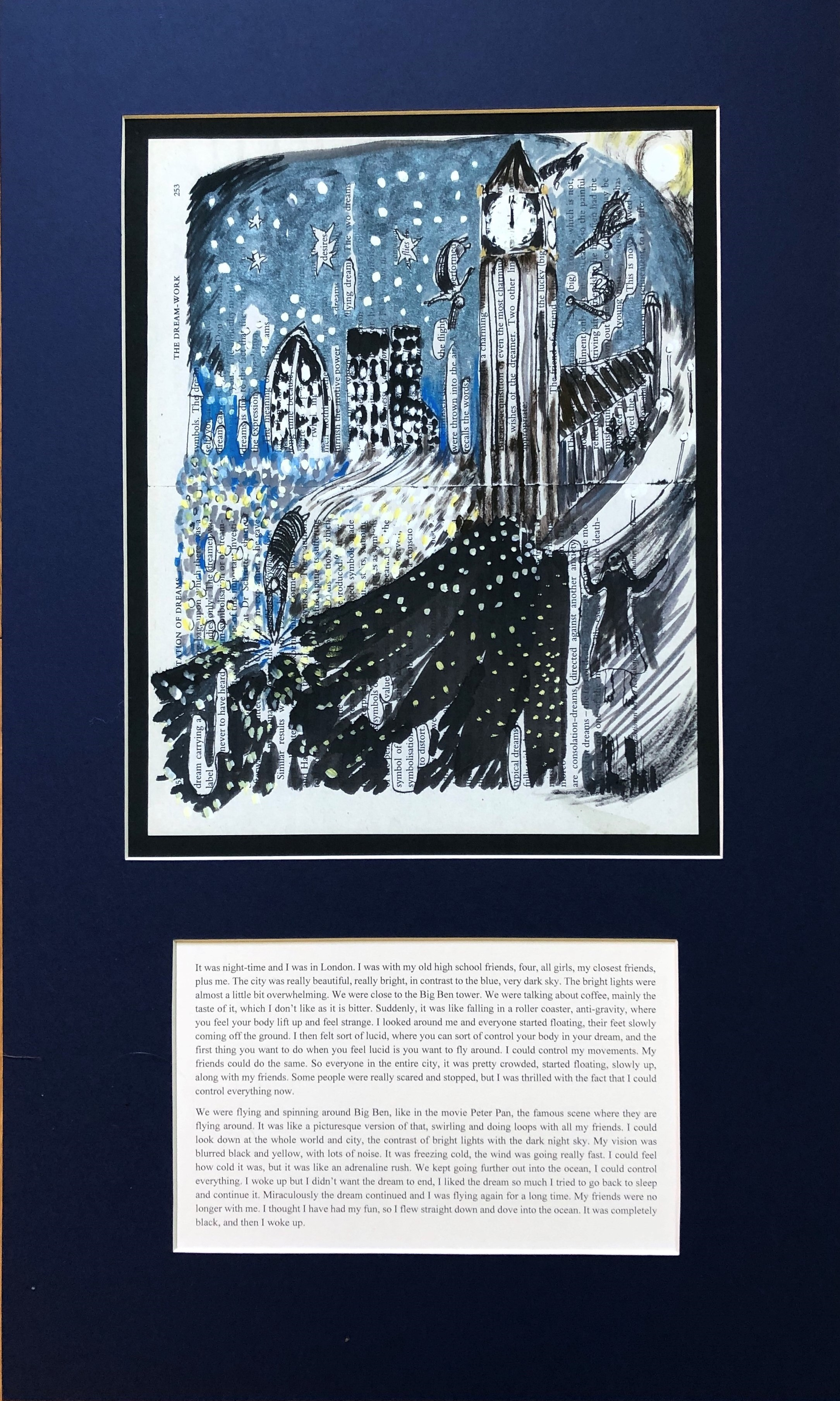 Painting by Julia Lockheart of dream of Flying above London